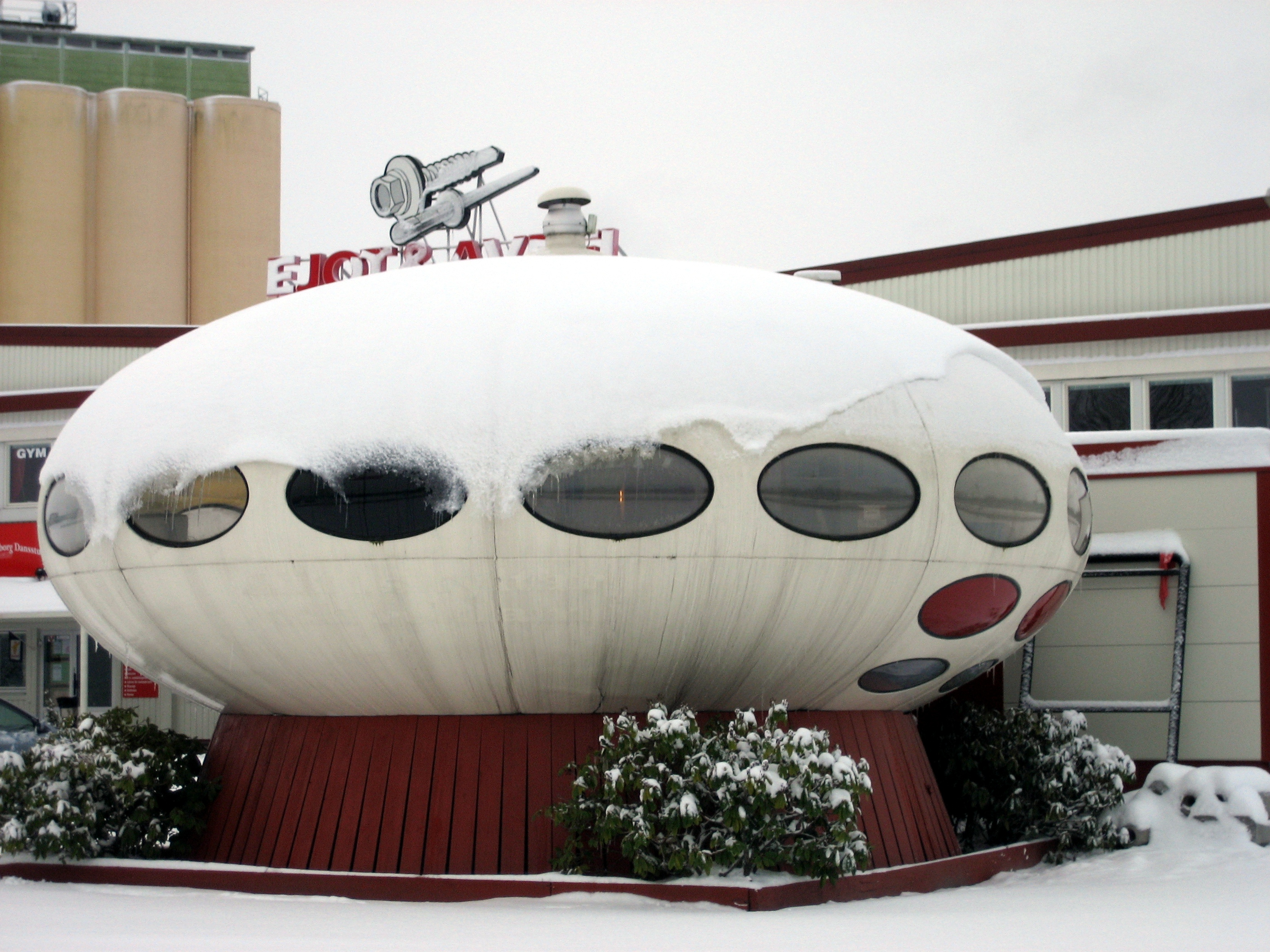 A Futuro House — in Örebro, south central Sweden.